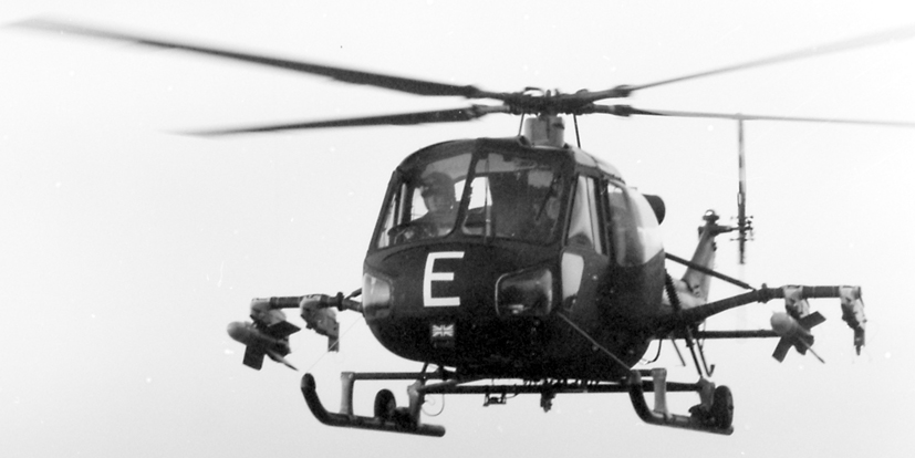 3 Commando Brigade Air Squadron Scout fitted with SS.11 guided missiles, at Coypool, Plymouth.